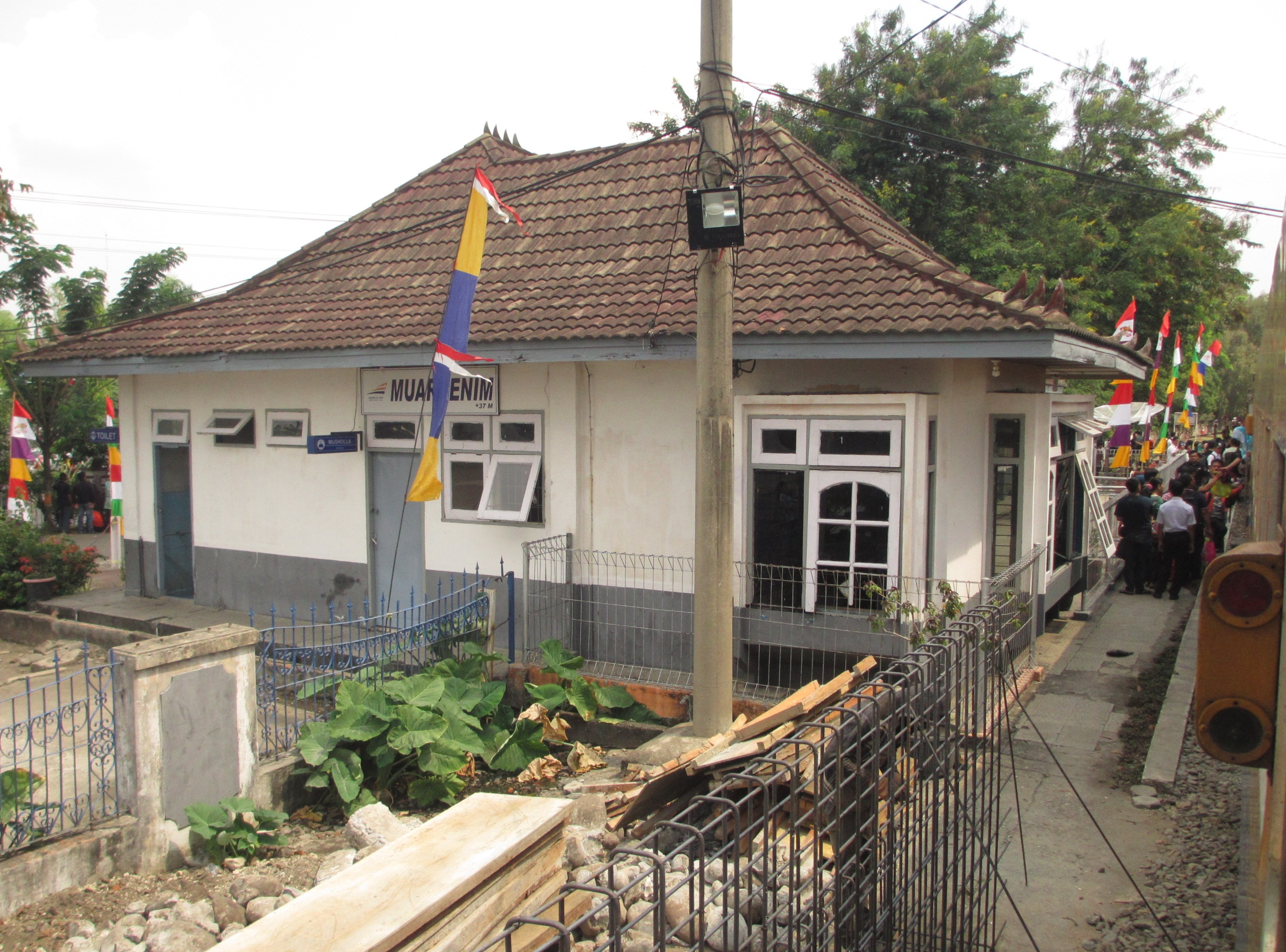 Muaraenim Railway Station.